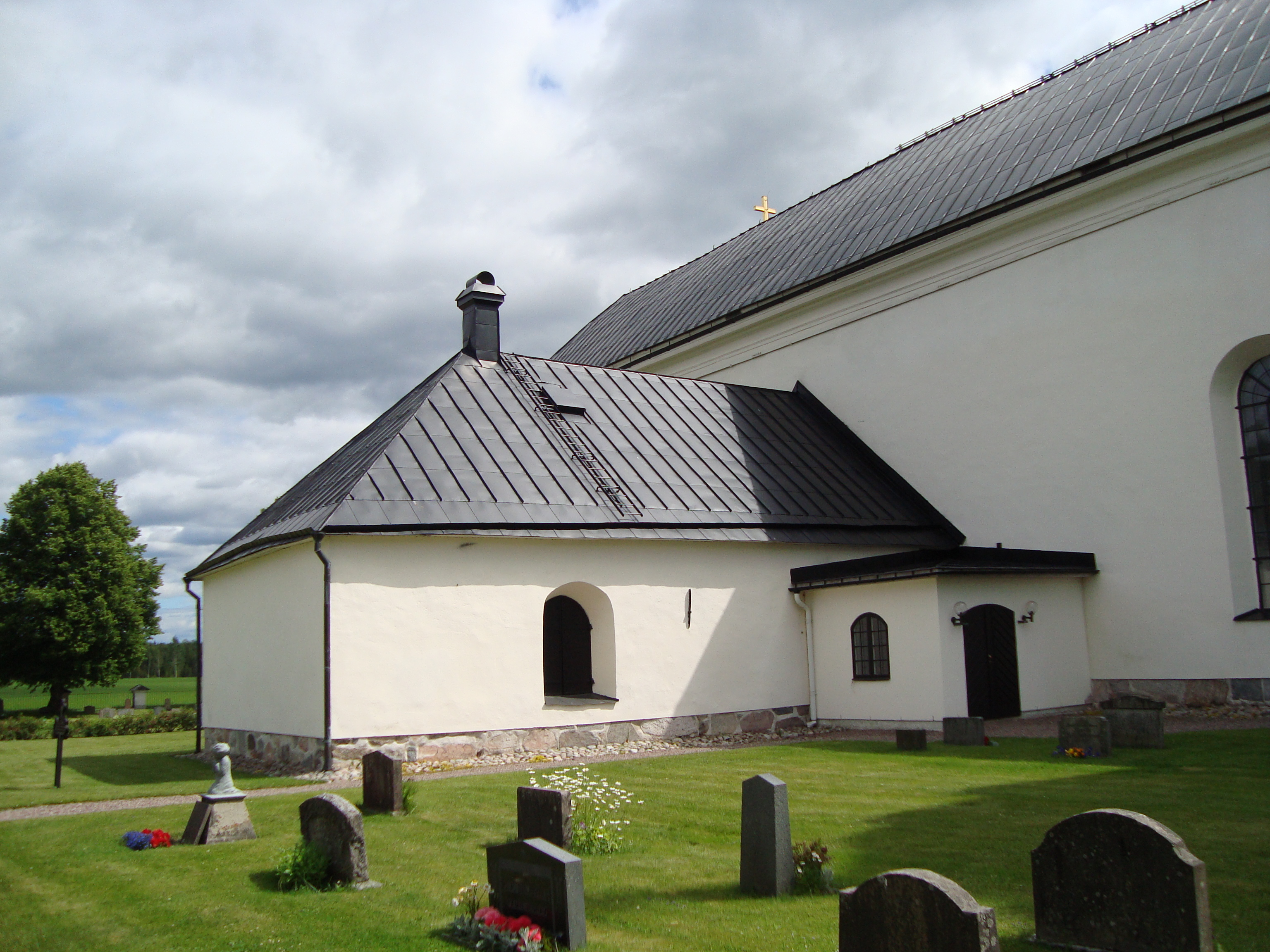 Exterior of "Husby lillkyrka", a chapel inside Husby church, Hedemora municipality, Sweden